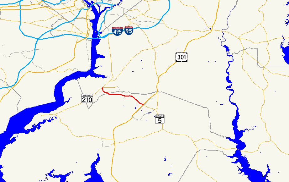 Map of Maryland Route 228